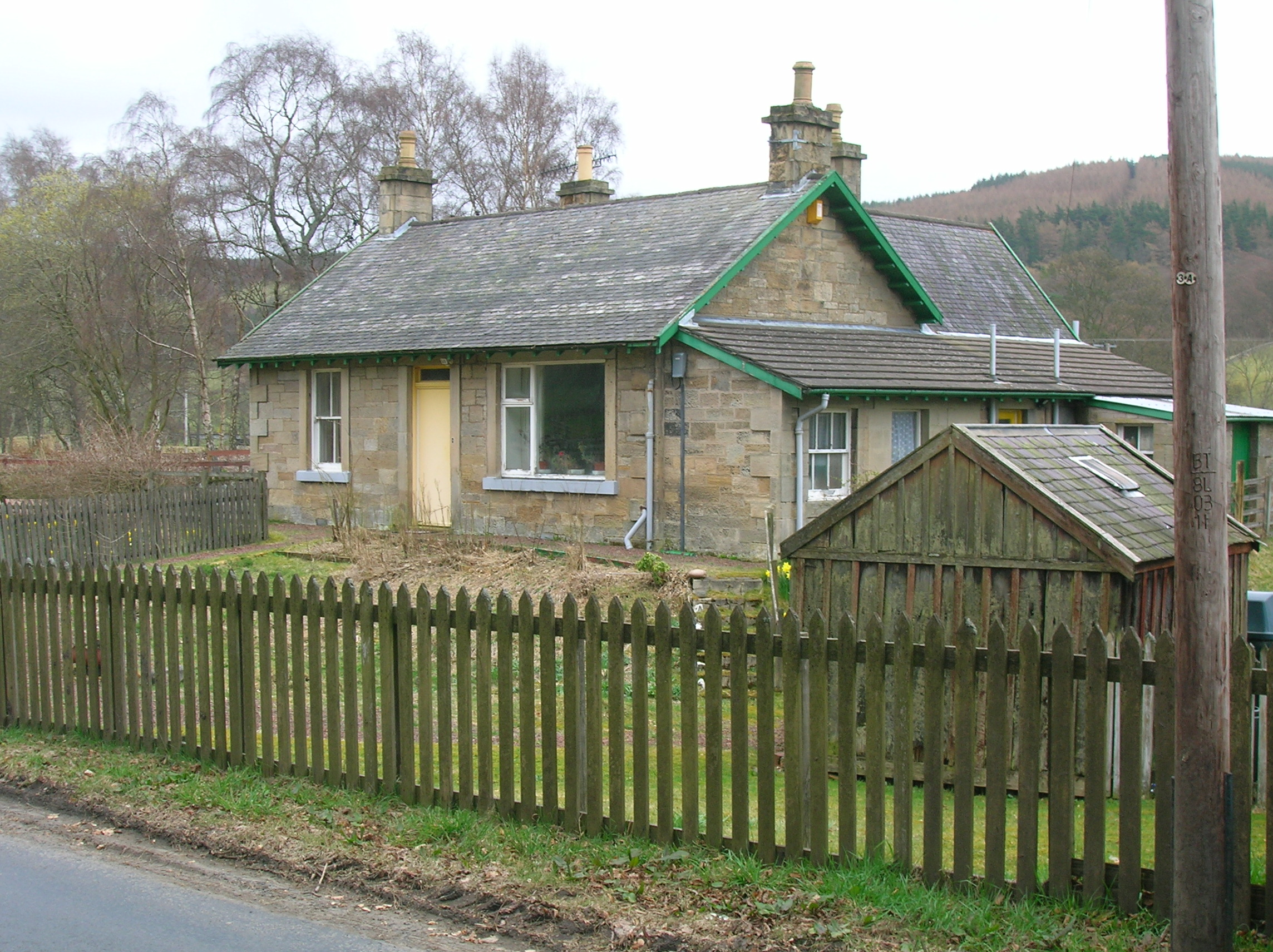 Stobo railway station near Broughton in the Borders, Scotland